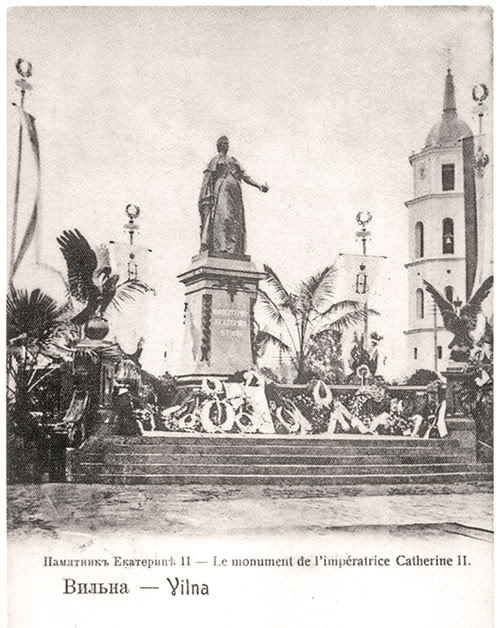 Monument to Catherine the Great in Vilnius (1904-1915)